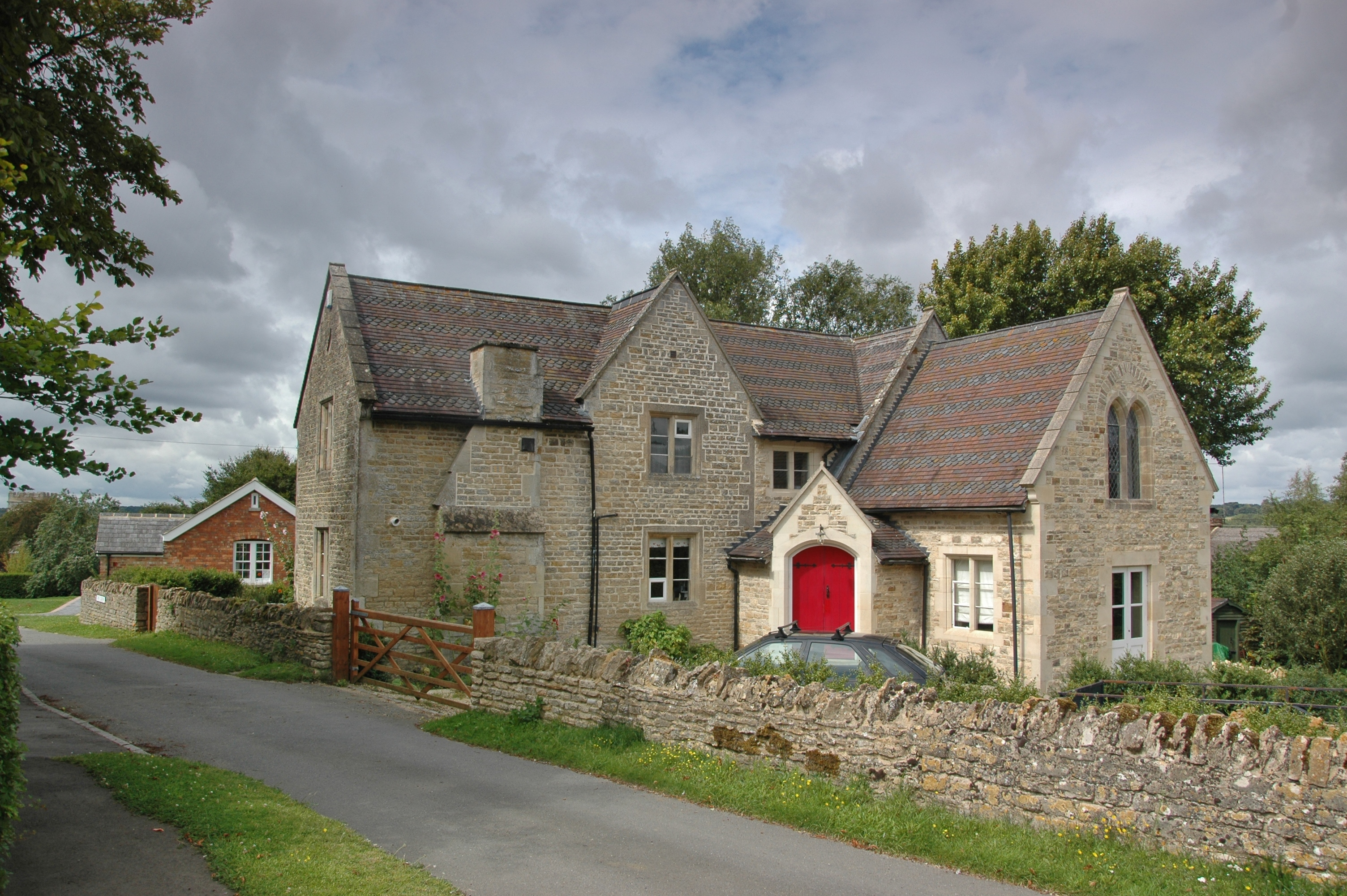 Former parish school at Upper Heyford, Oxfordshire, seen from the east